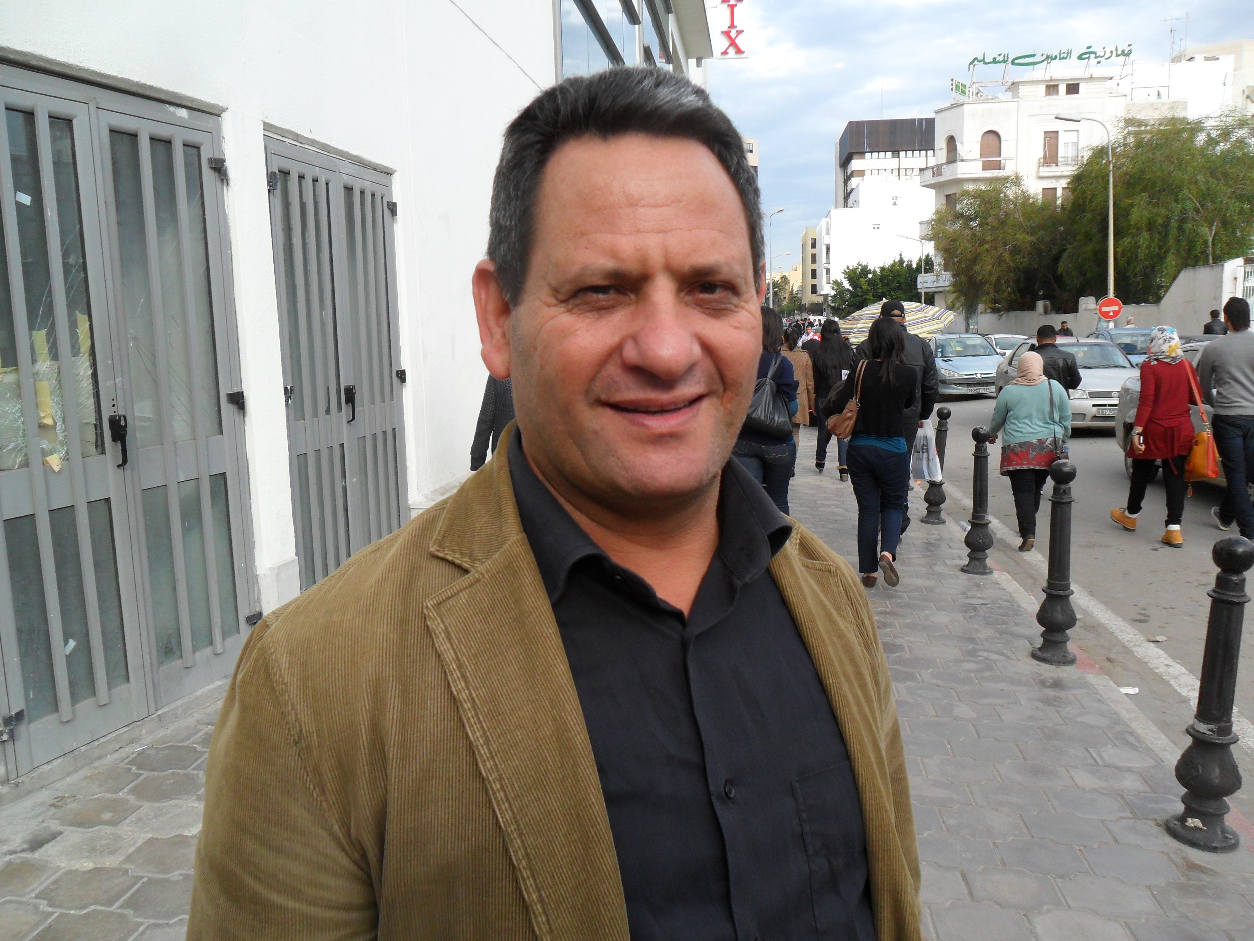 Neji Bghouri (1967- ), Tunisian journalist